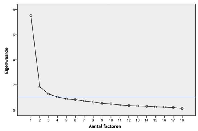 Screeplot with 3 factors